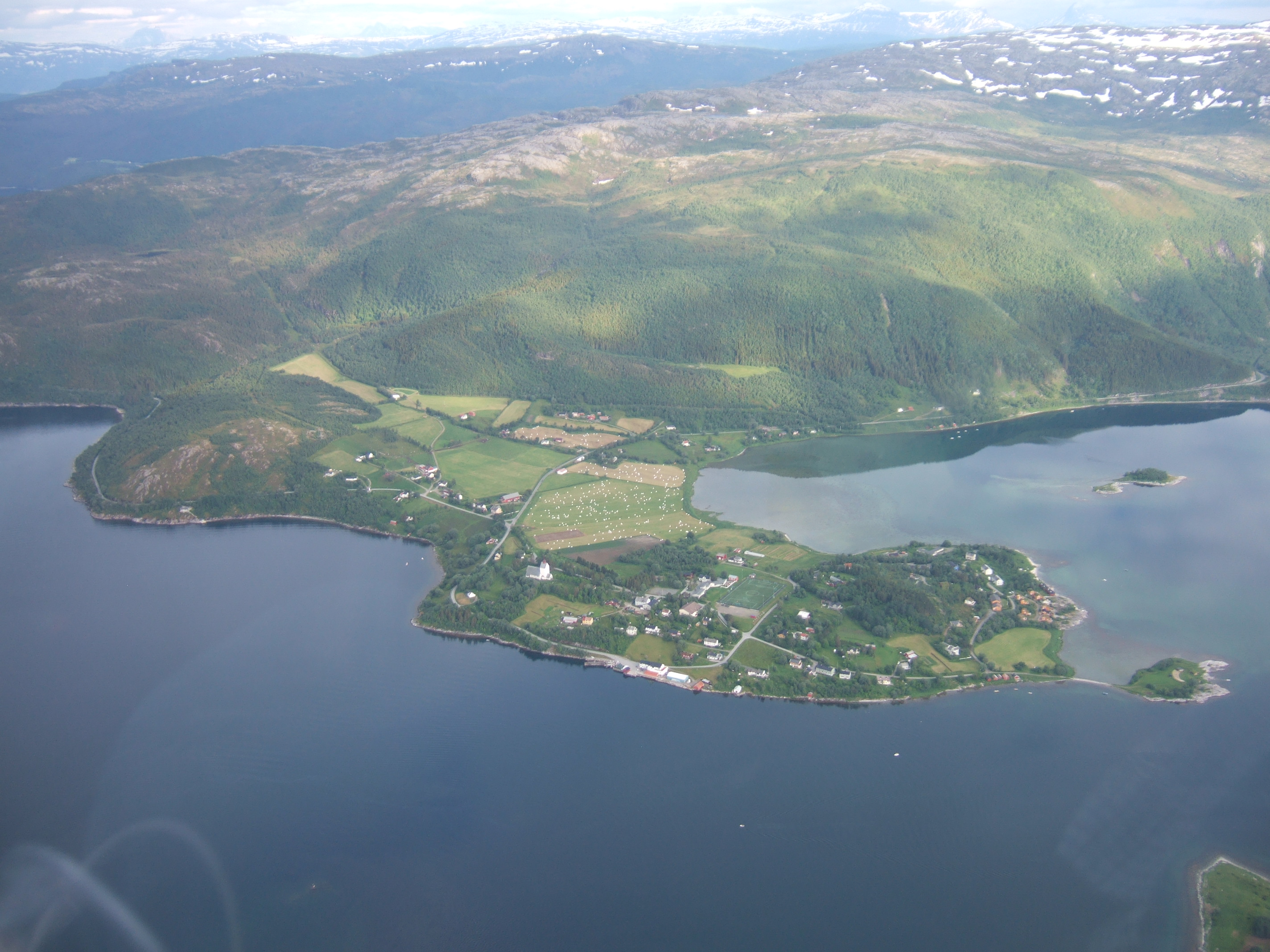 Skjerstad in Bodø municipality in Nordland, Norway.